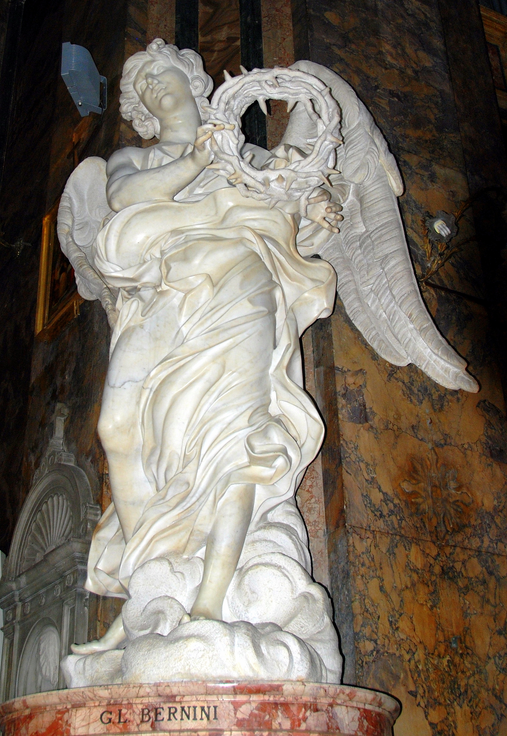 Angel with Crown of Thorns by Gian Lorenzo Bernini, marble, 1667--1669